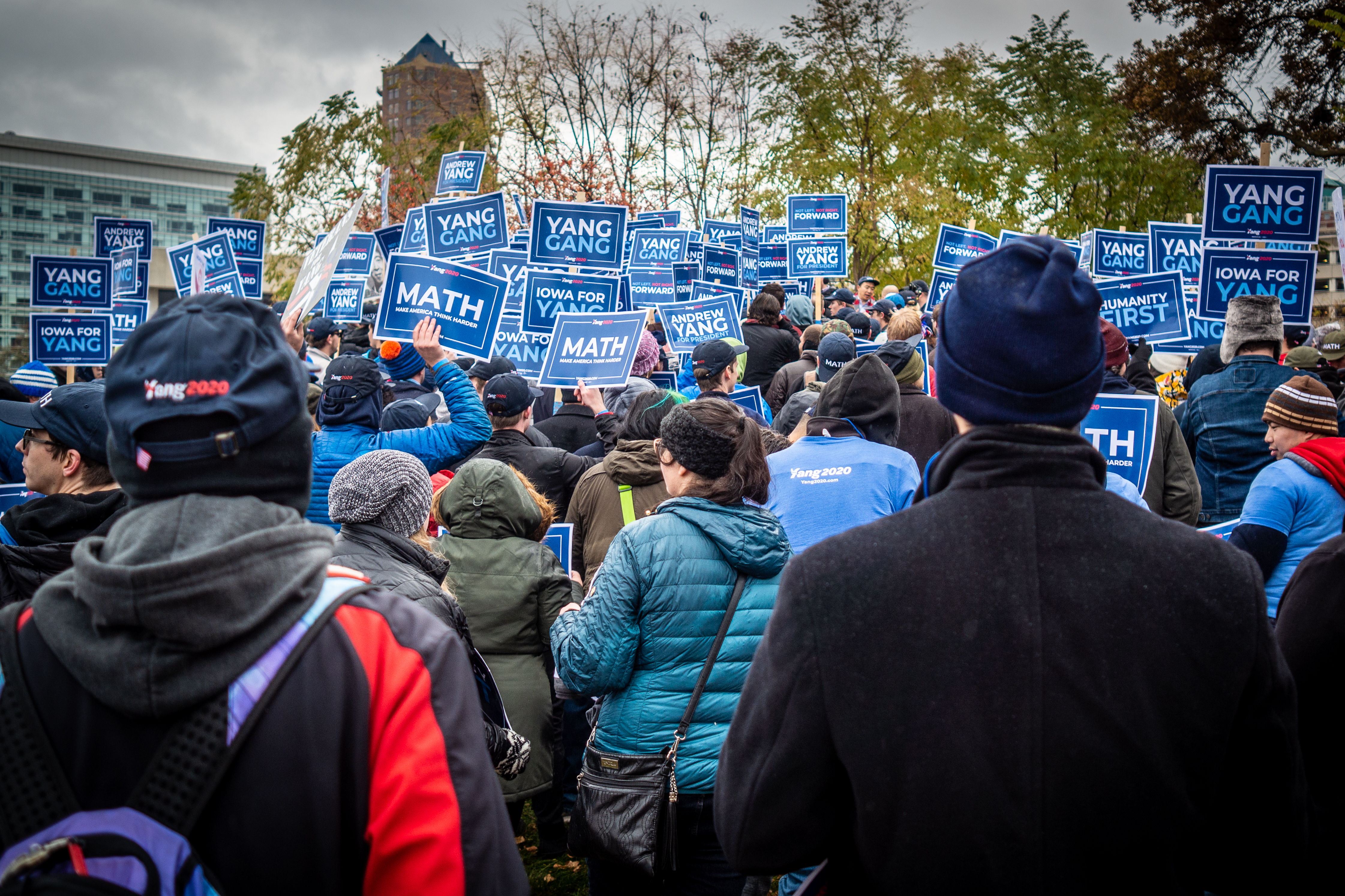 A few more photos from a walkabout of the pre-event activities before the Democratic presidential candidates spoke at the Iowa Democratic Party's Liberty & Justice Celebration in Des Moines, Iowa.